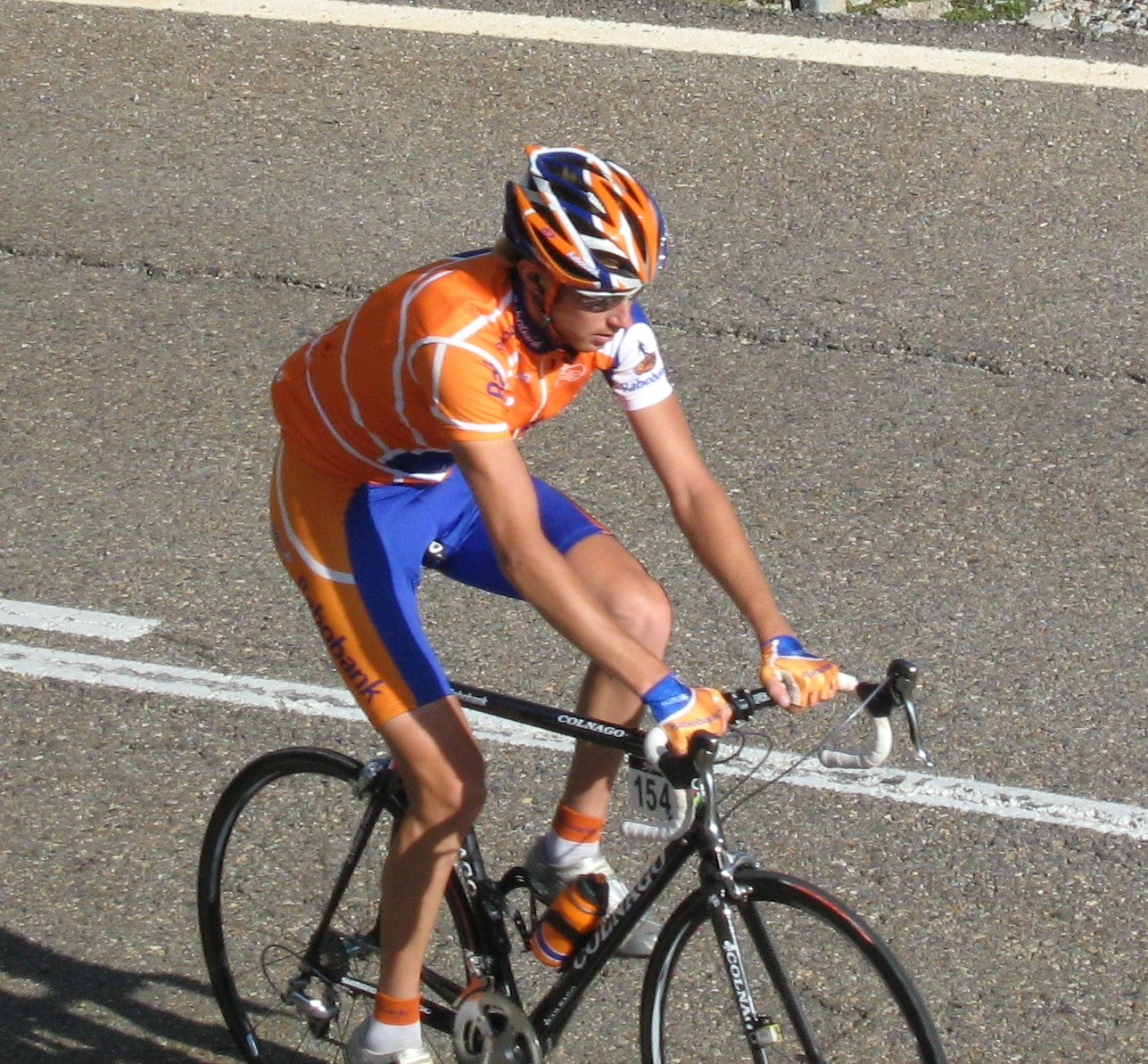 Dmitri Kozontchuk, 2008 Vuelta a España, 8th stage, Port de la Bonaigua, Spain.